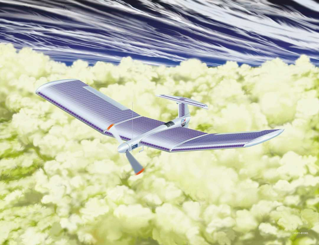 Concept for a solar-powered aircraft to explore the atmosphere of Venus.